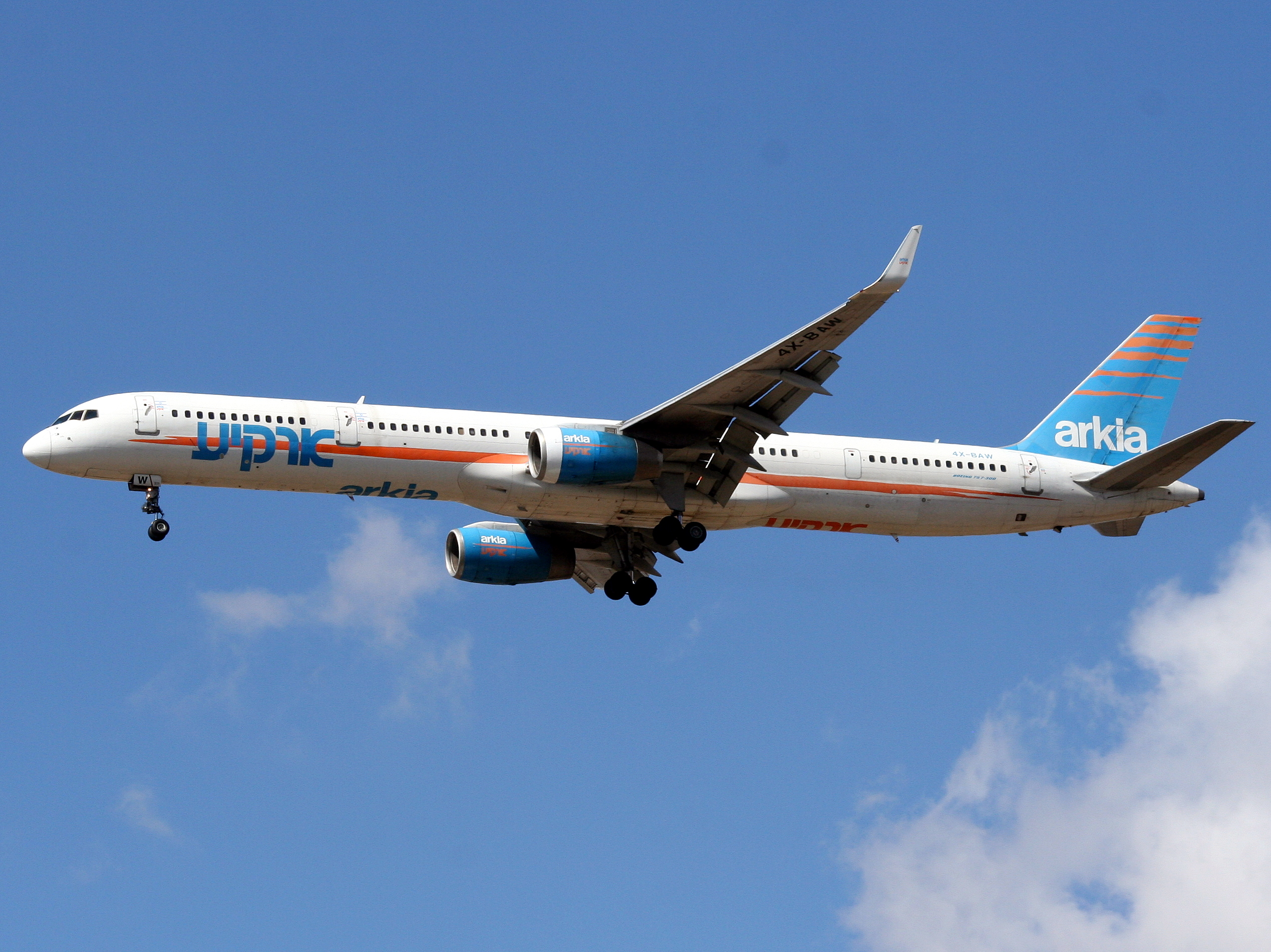 Landing at Ben Gurion Airport (TLV)